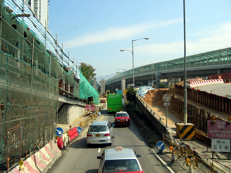 HK Road T3 During construction in 2006/01